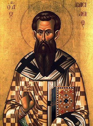 Basil of Caesarea (ortodox icon)